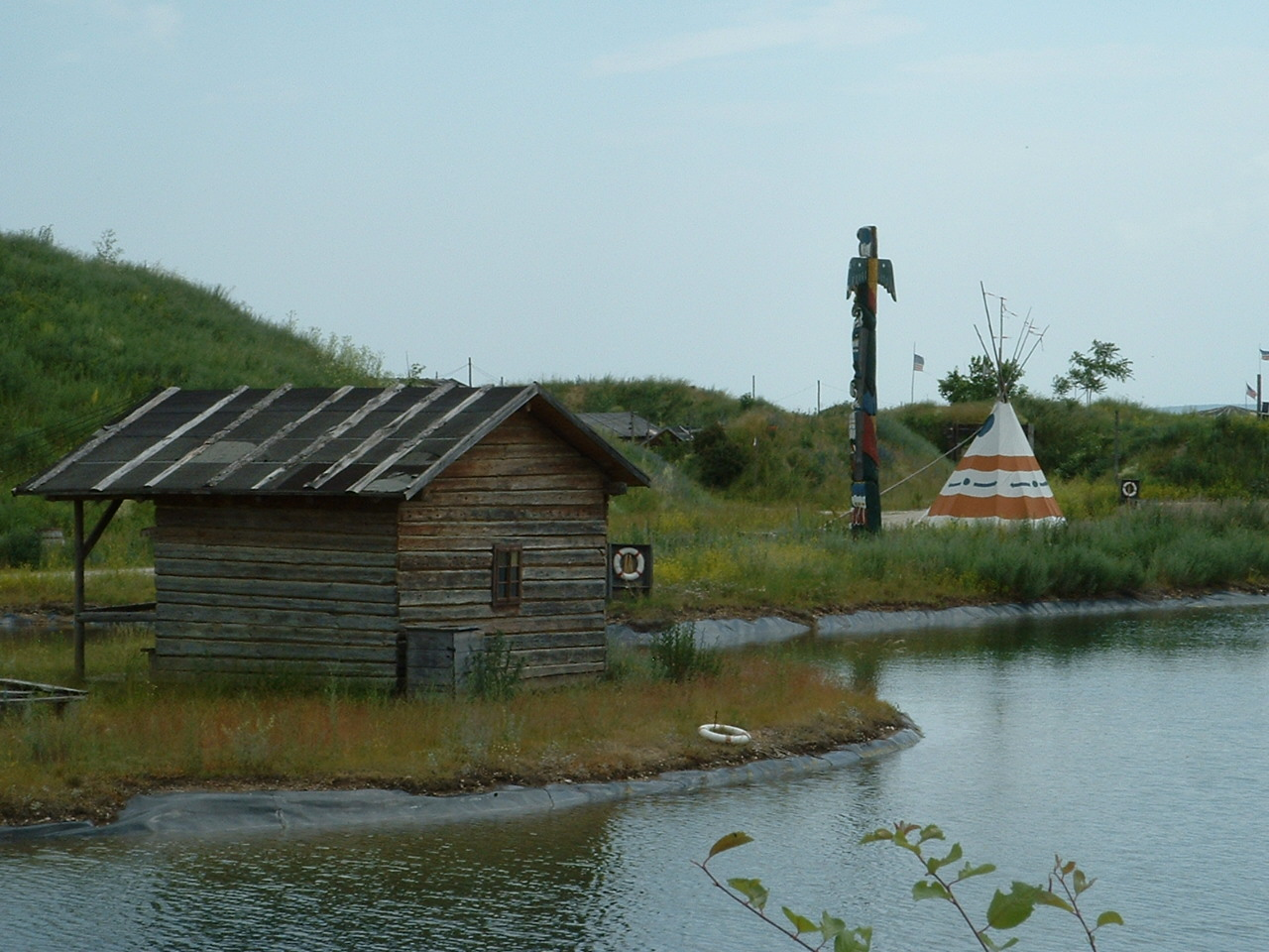 The lake in No Name City